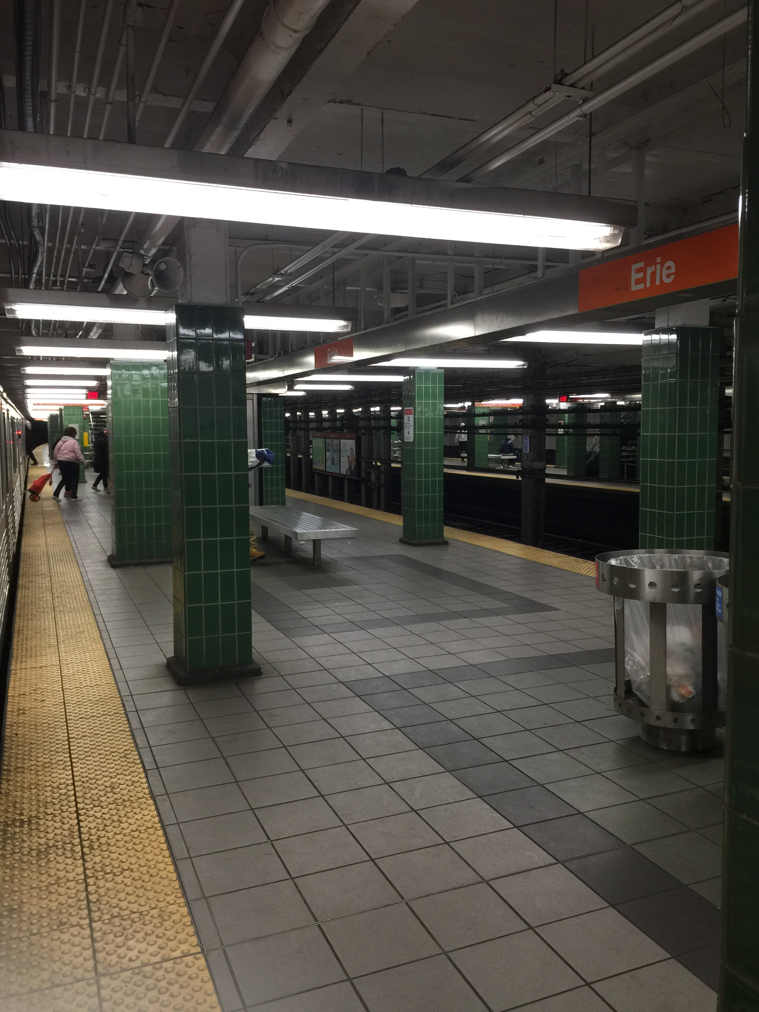 Erie station